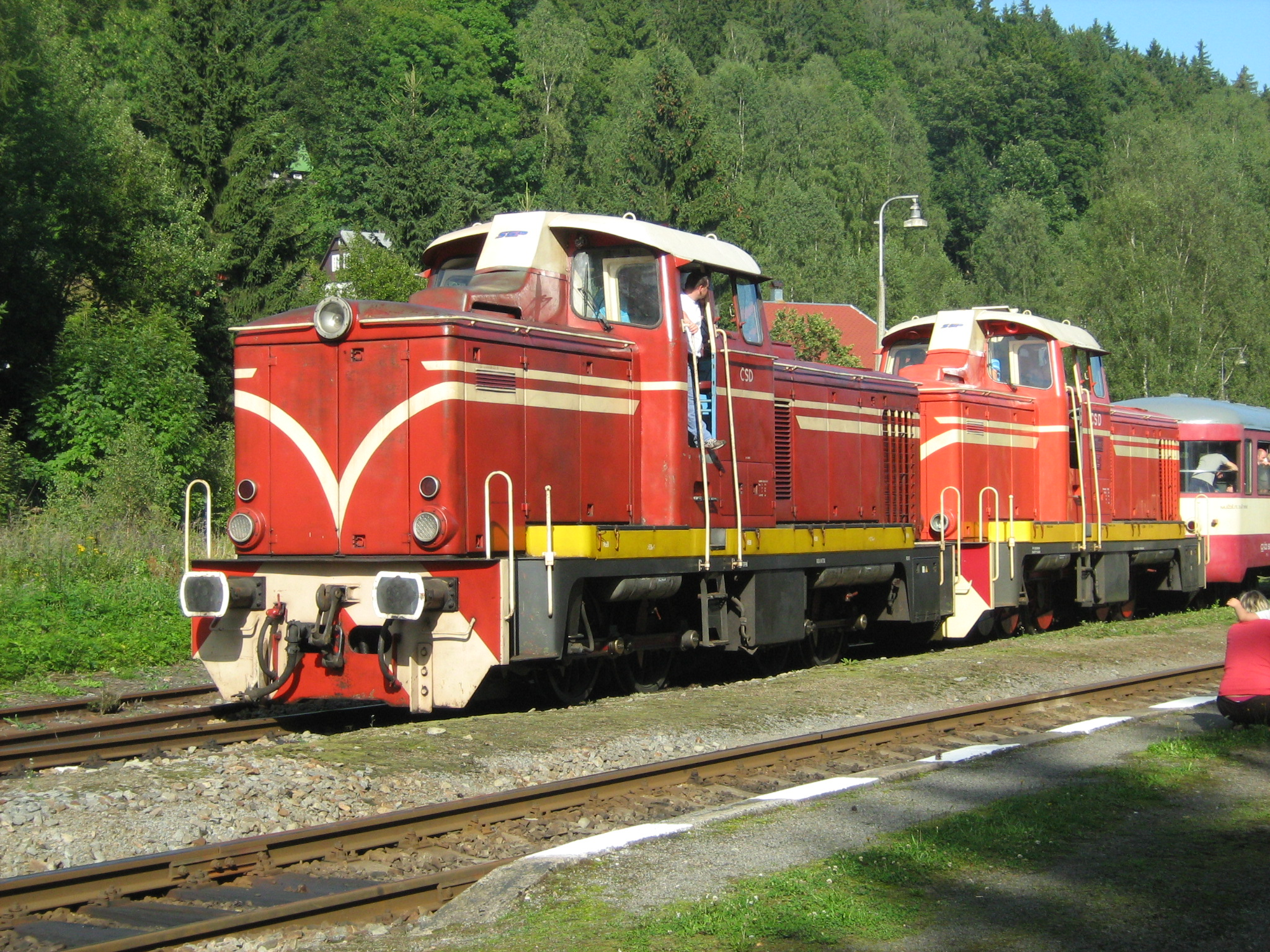 Czech dieselhydraulic locomotives type ČD 715 (old name ČSD T426.0, manufacturer Graz machines Austria) in Kořenov, railway line Tanvald, CZ - (Harrachov, CZ) - Jelenia Góra, PL.